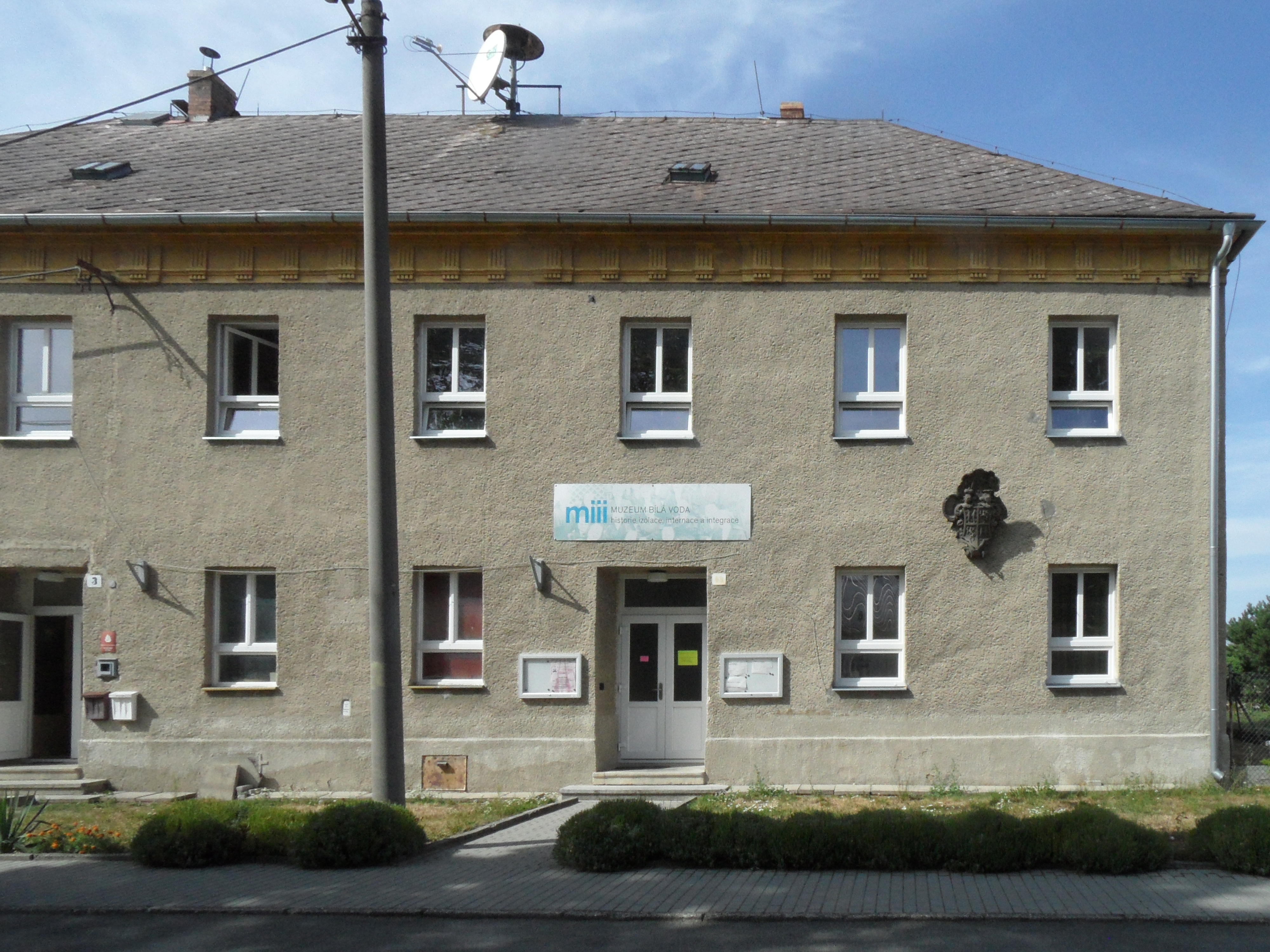 Městys Bílá Voda C. Museum. Jeseník District, the Czech Republic.